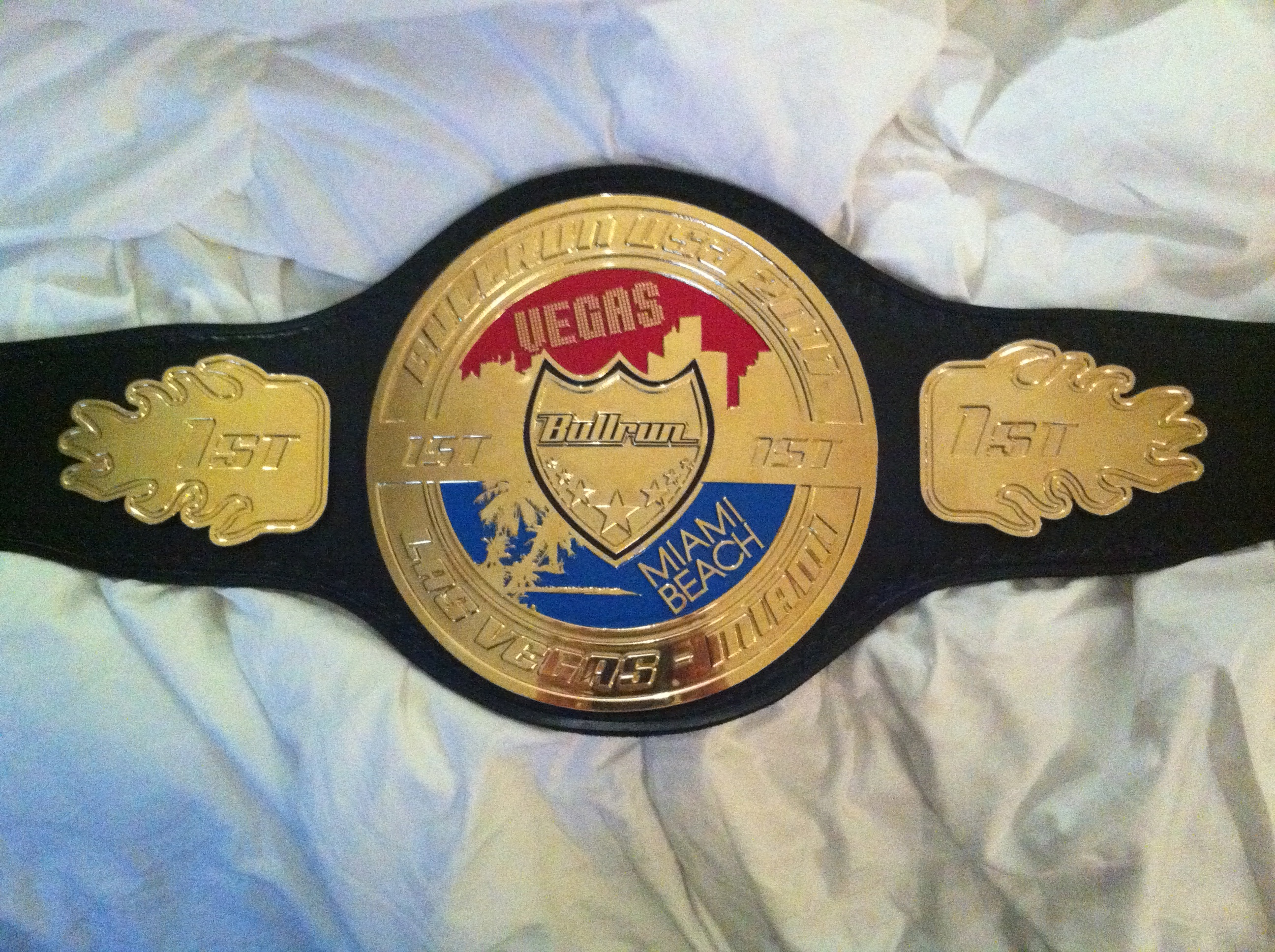 Bullrun Navigator Award Belt won by Seth Rose of Exotics Rally